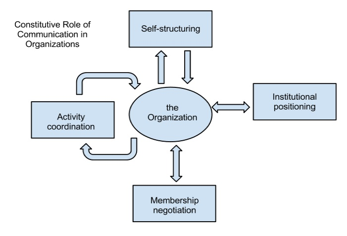 Depiction of the constitutive role of communication in organizations with the four flows model. Created for a graduate student Wiki project.